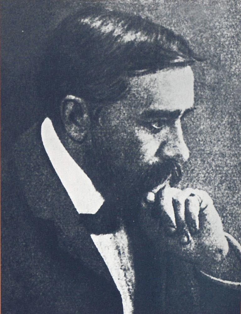 Russian artist and illustrator, Sergey Solomko (1867-1928)